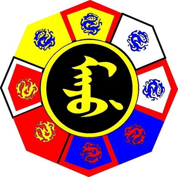 a symbol of Manchu people